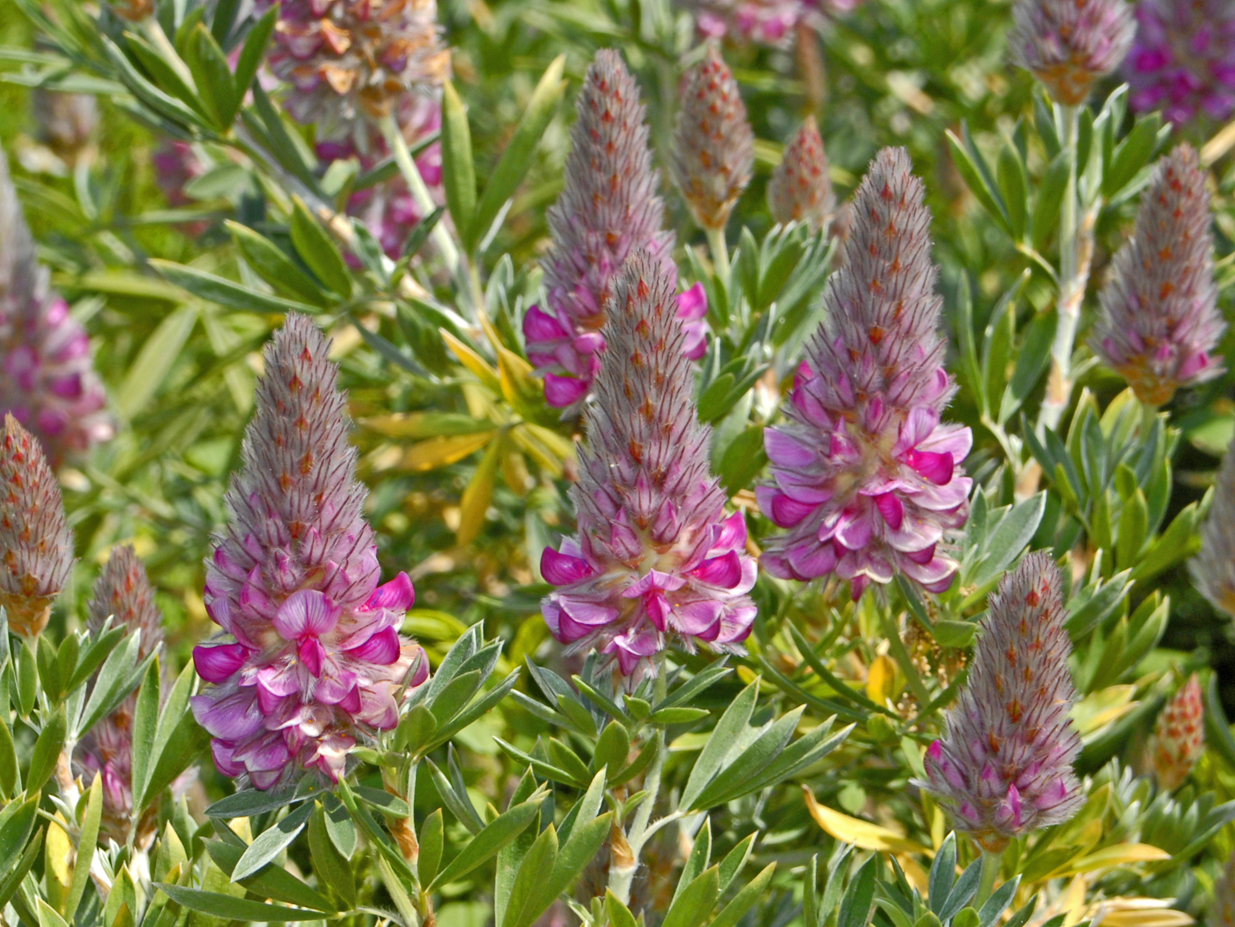 Flowers of Ebenus cretica at the Jardin des Plantes, Paris